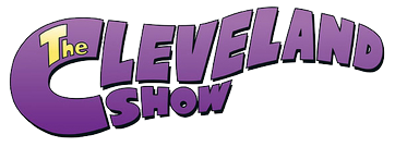 Logo